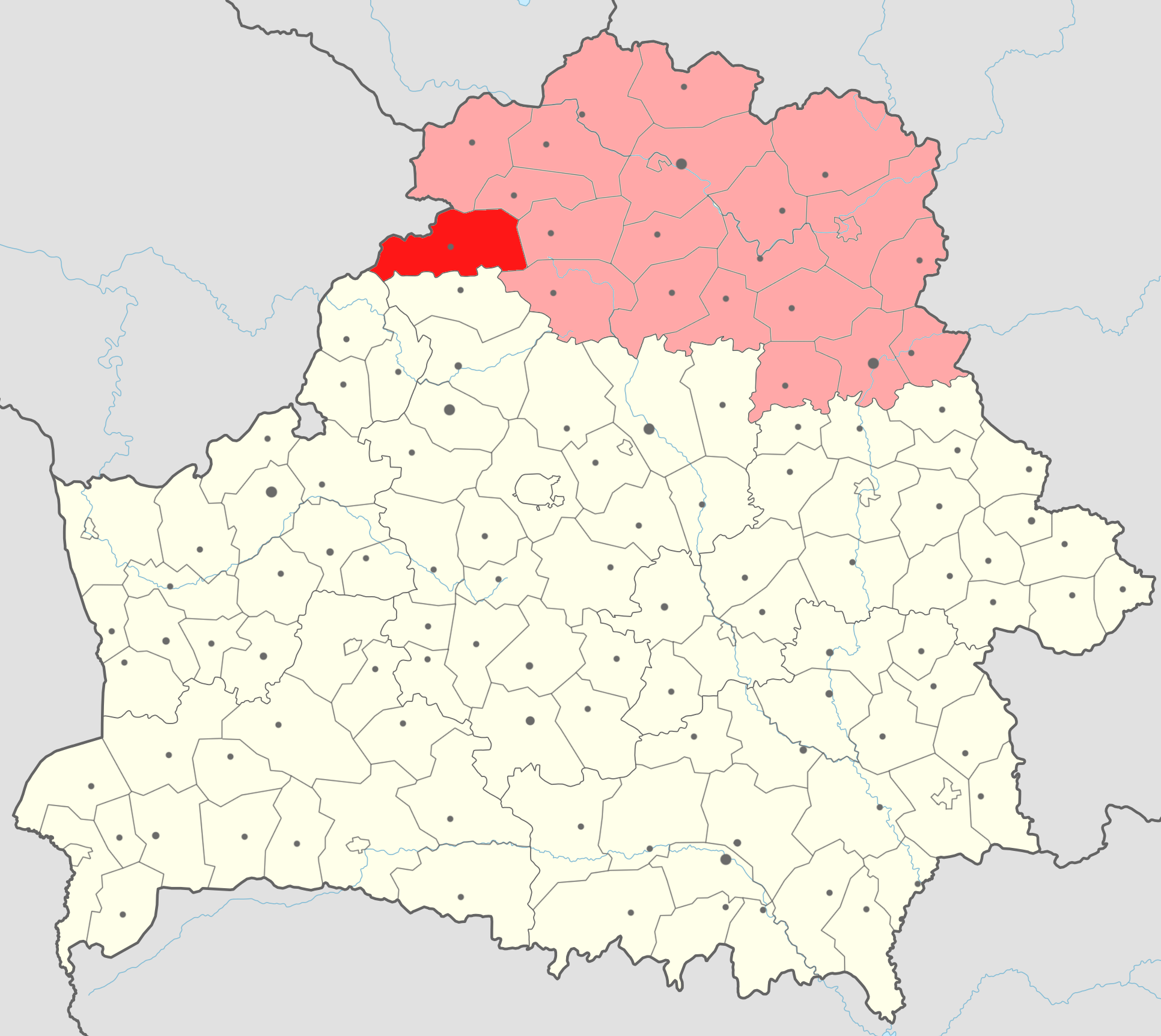 Map of Pastaŭski raion (in red) with Viciebskaja voblast' (in light red) on the map of Belarus.